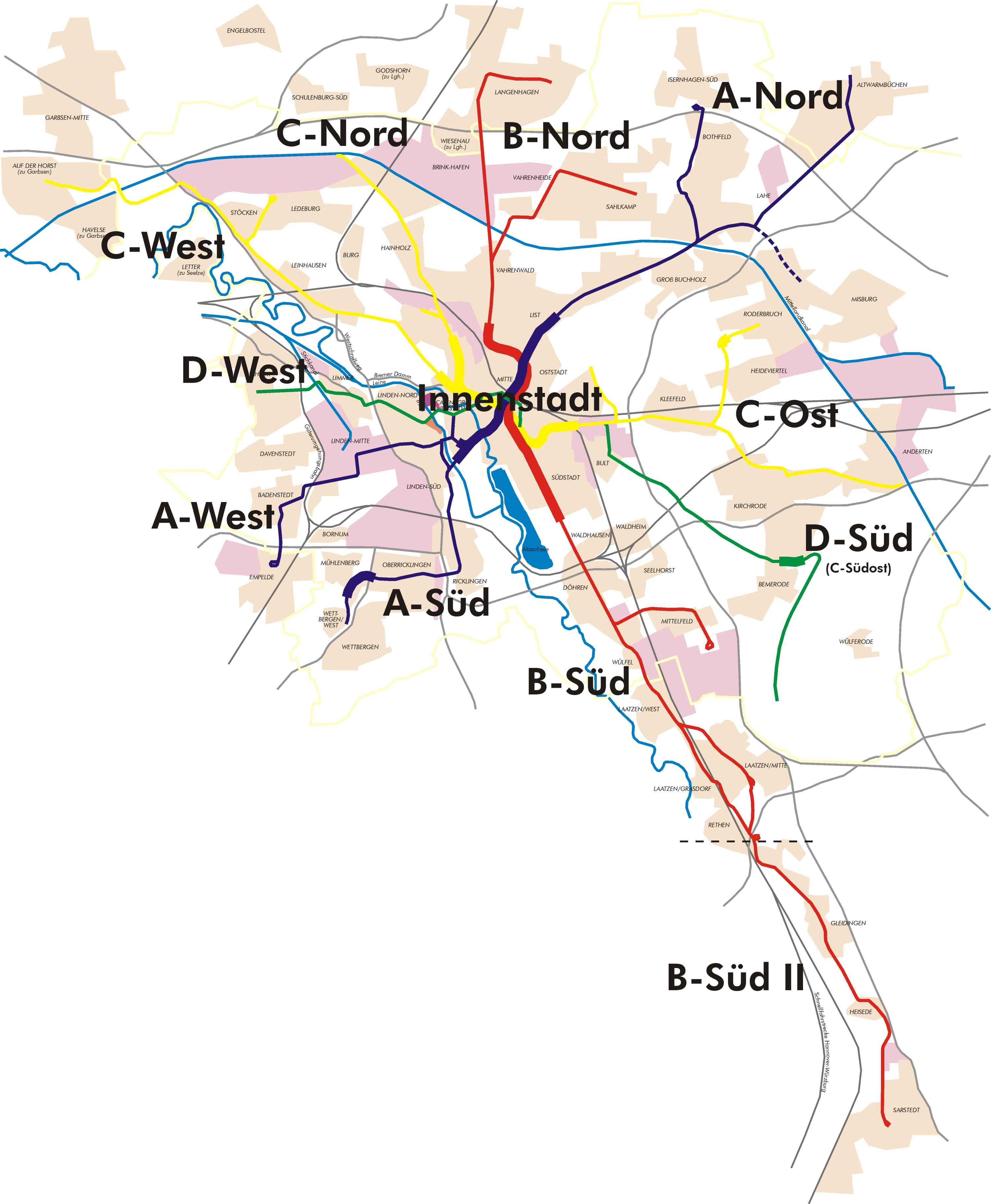 Light rail of Hannover, Germany. Full map.